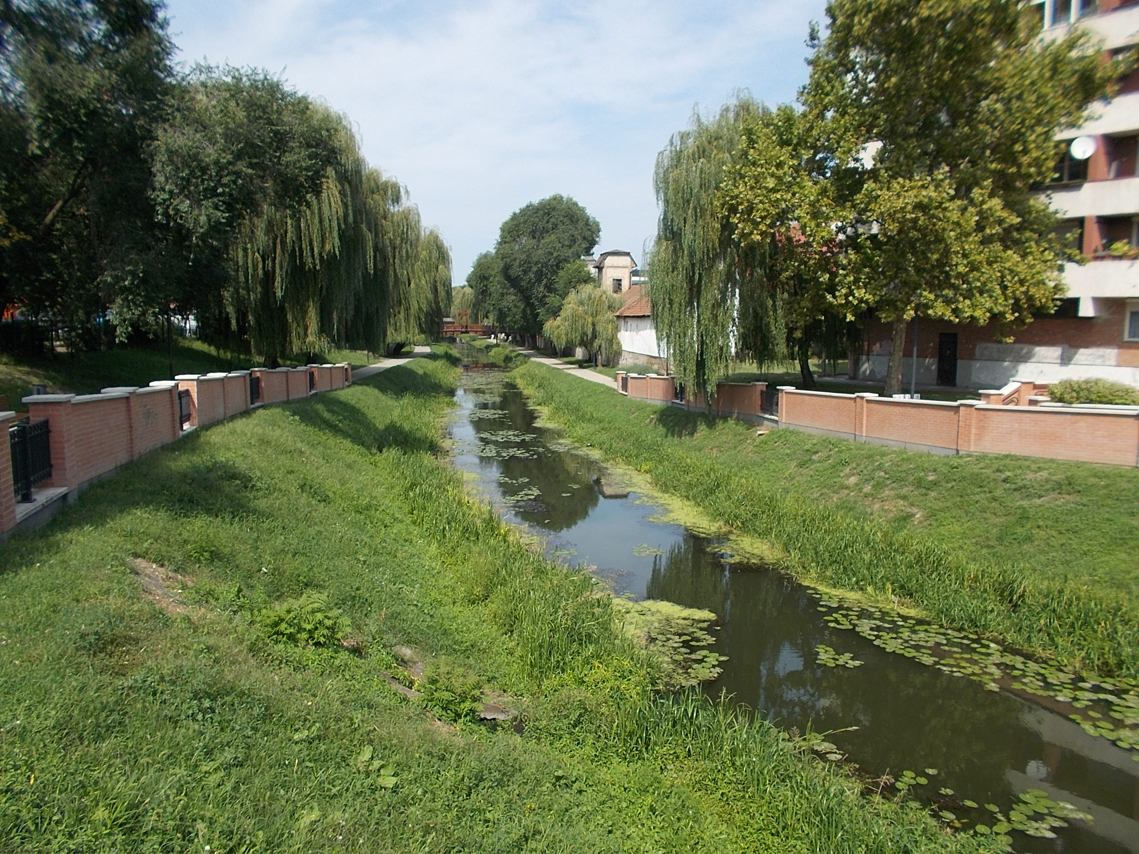 Footbridge from Szövetkezet street's bridge. - Jászberény, Jász-Nagykun-Szolnok County, Hungary